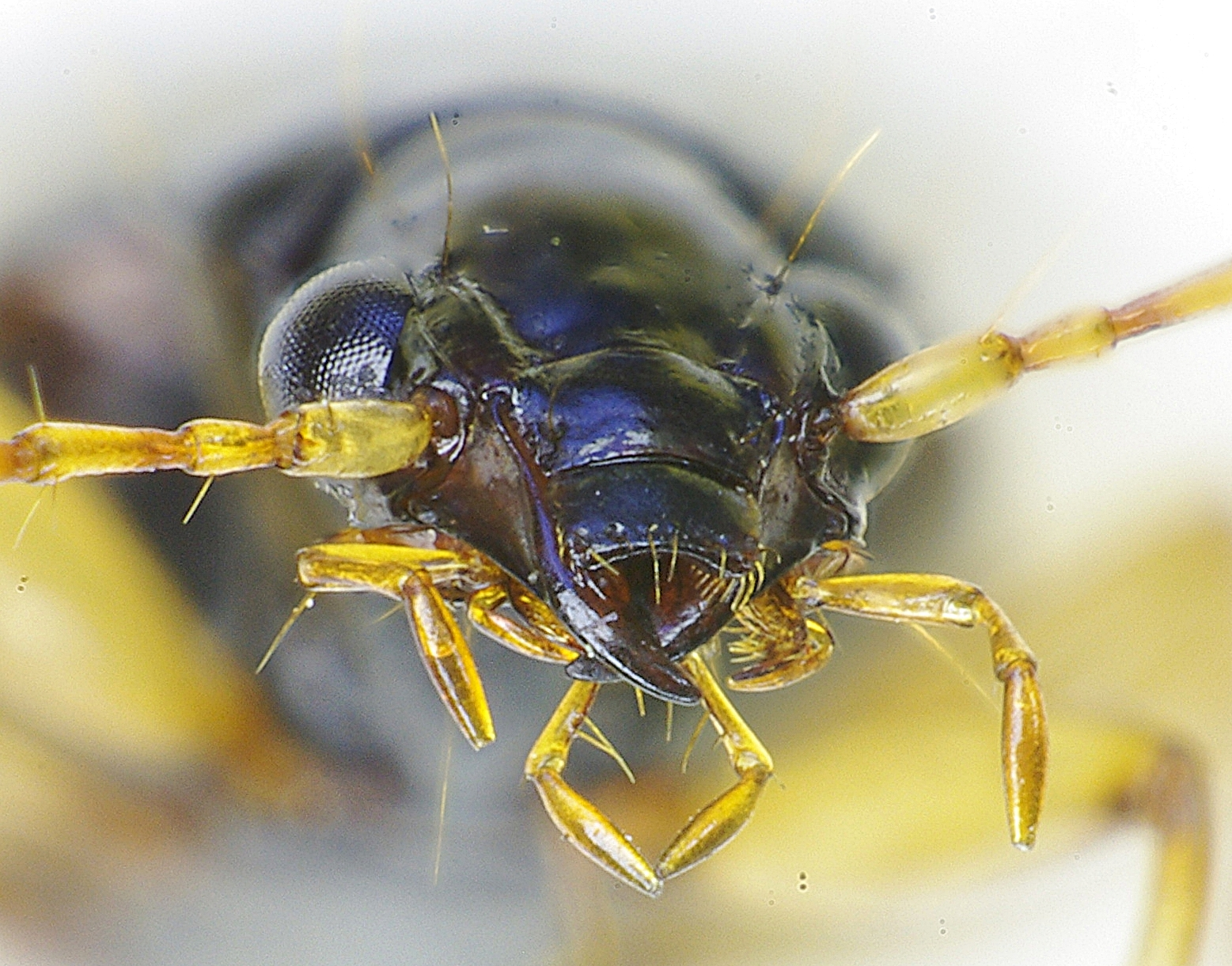 Front of Paranchus albipes